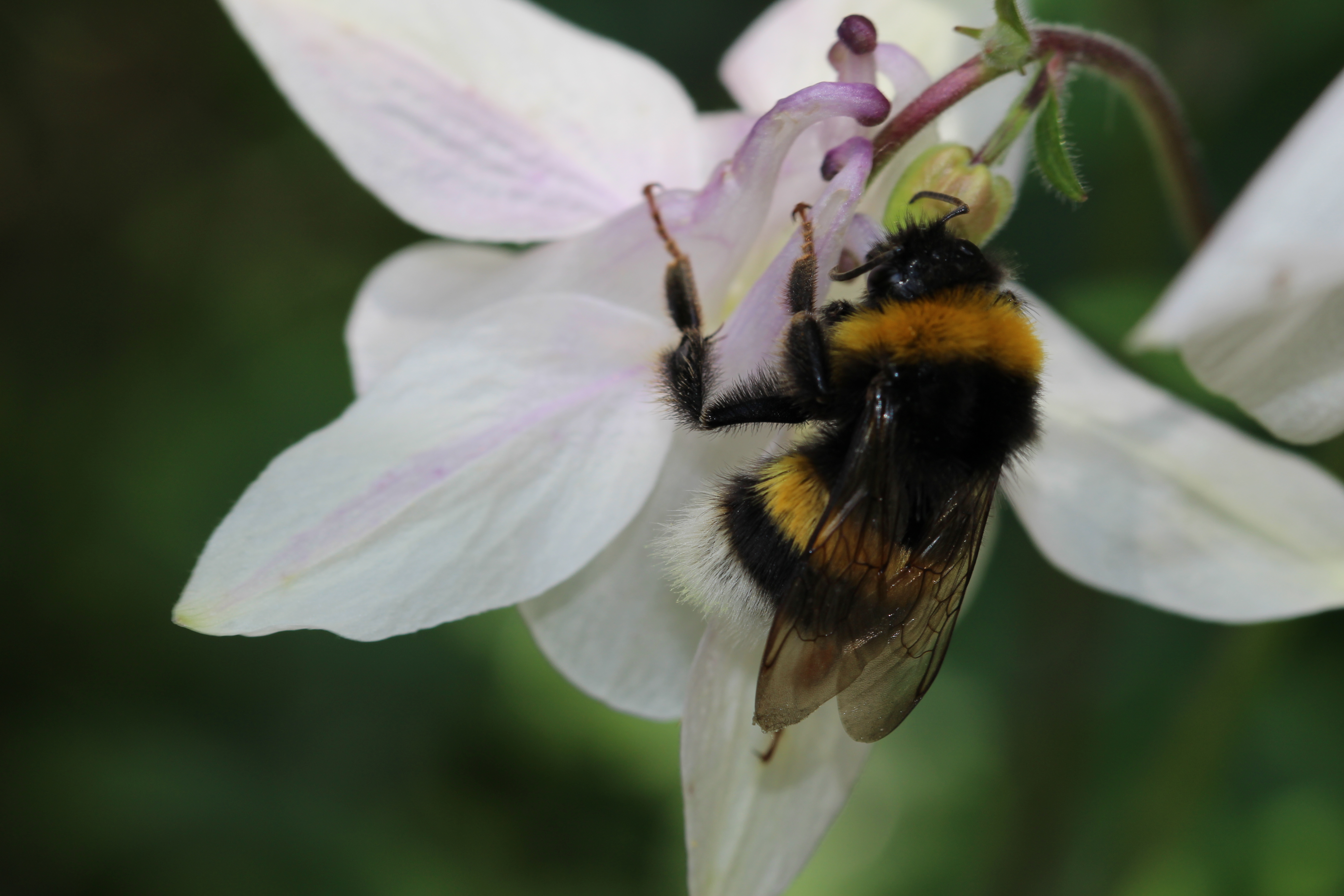 Aquilegia vulgaris